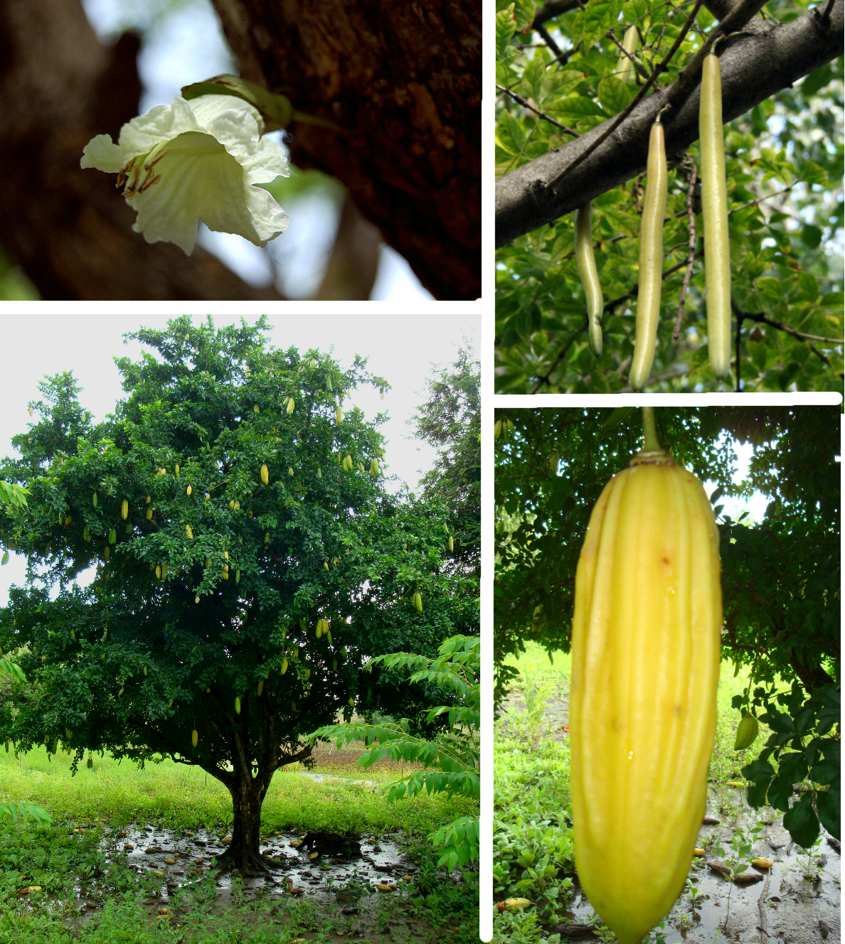 Parmentiera montage. Upper photos: Parmentiera cereifera. Bottom photos: Parmentiera aculeata.